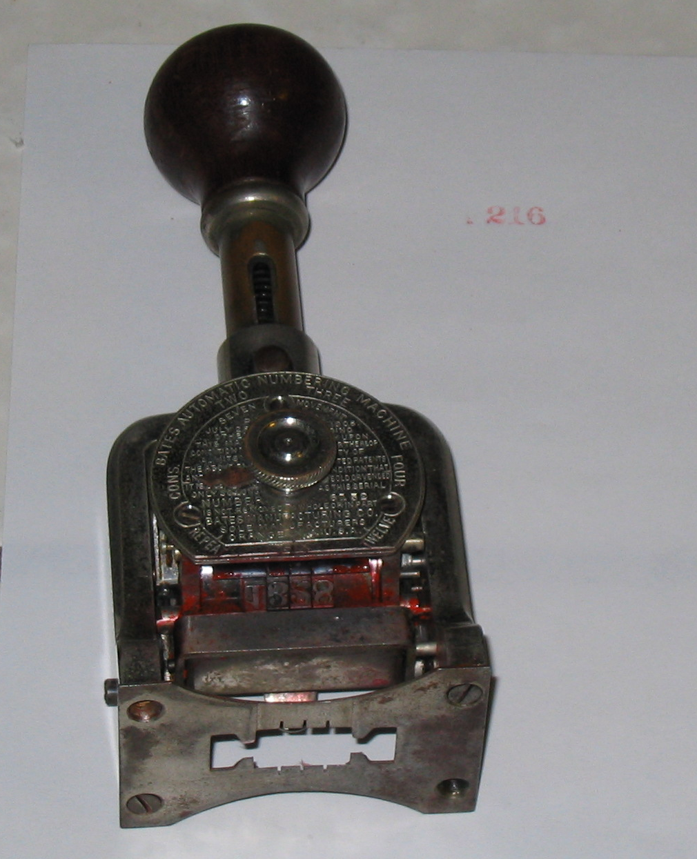 Bates numbering machine, model circa 1906Markings: "4 wheels, style E, seven movement, serial number 6152"